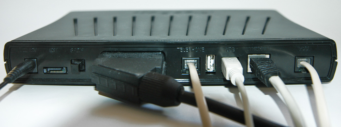 Modem Freebox ADSL + TV + telephone © ChtiTux (2004) By Marc Helleboid